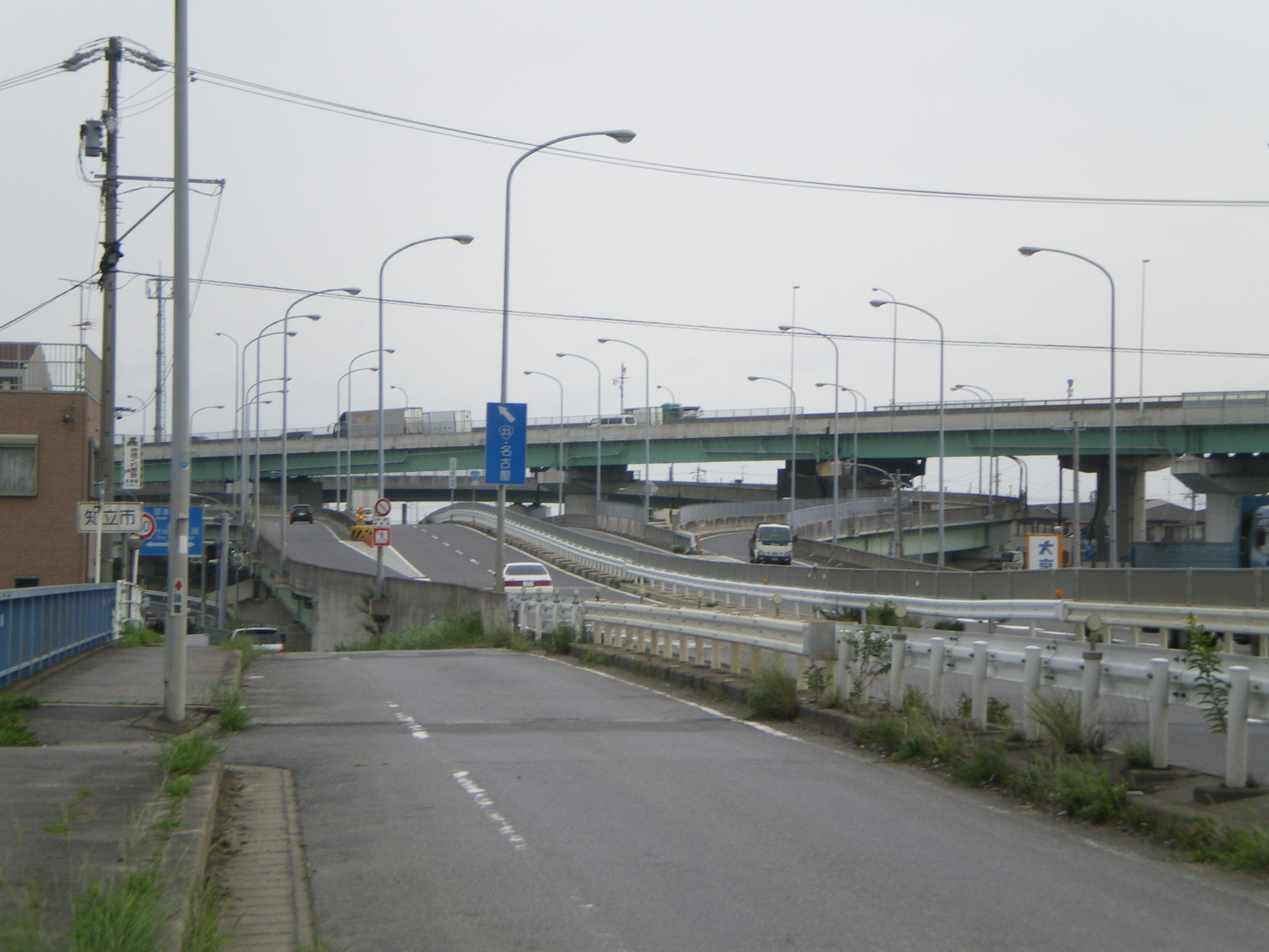 Japan National Route 23 Nishinaka interchange and Japan National Route 419